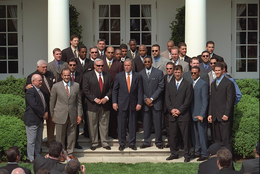 President George W. Bush stands with the 2000 World Series Champion New York Yankees May 4, 2001, during a ceremony in the Rose Garden. Photo by Eric Draper, Courtesy of the George W. Bush Presidential Library and Museum